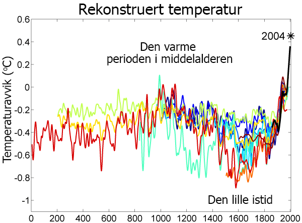 2000 Year Temperature Comparison